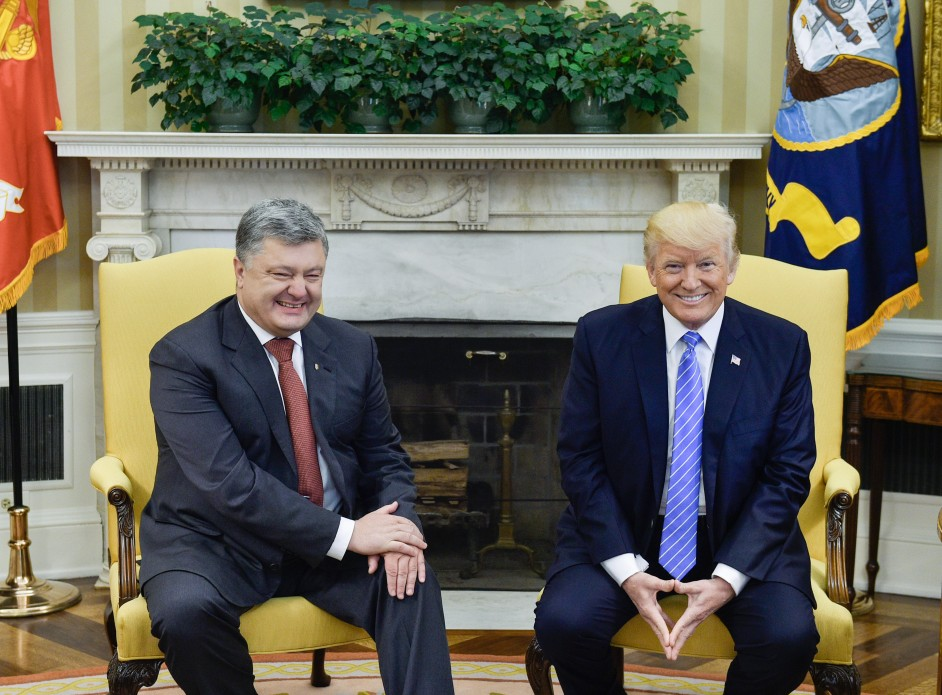 Working visit to the United States of America. Petro Poroshenko and Donald Trump in the Oval Office